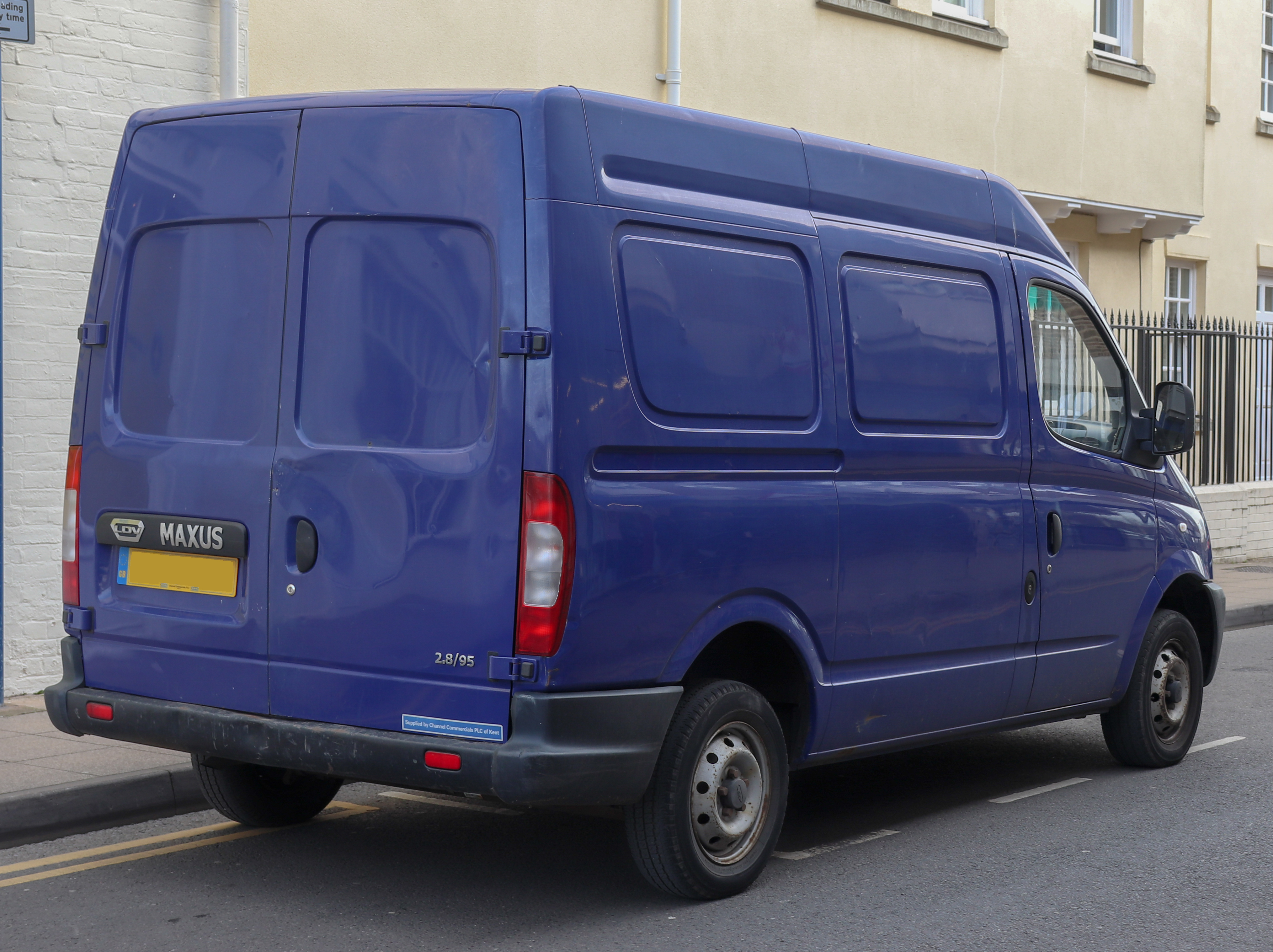 2007 LDV Maxus 2.8T 95 SWB 2.5 Rear Taken in Warwick